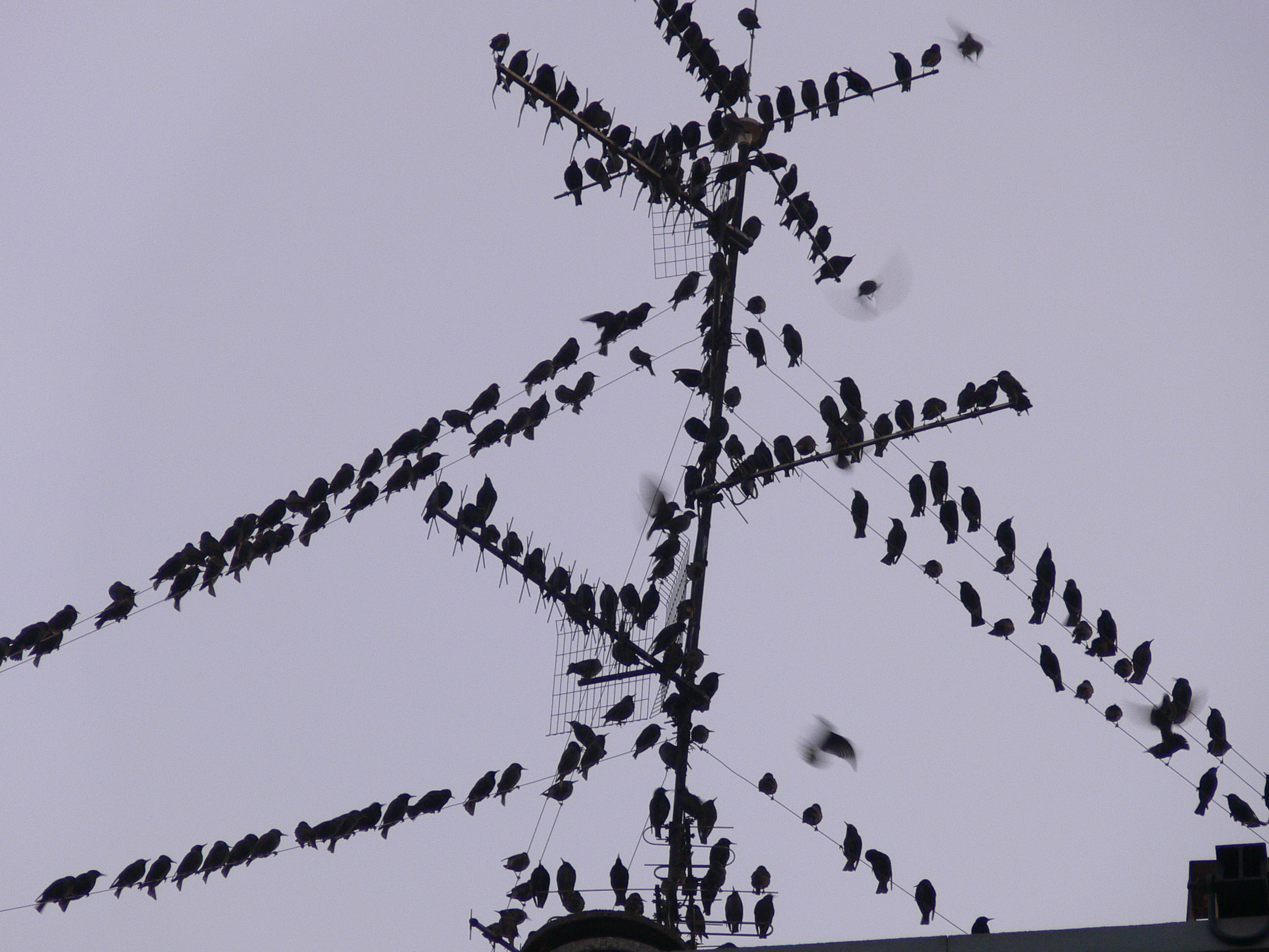 Sturnus vulgaris, in Lille, north of France, mercredi 20 février 2008, 18:09:42